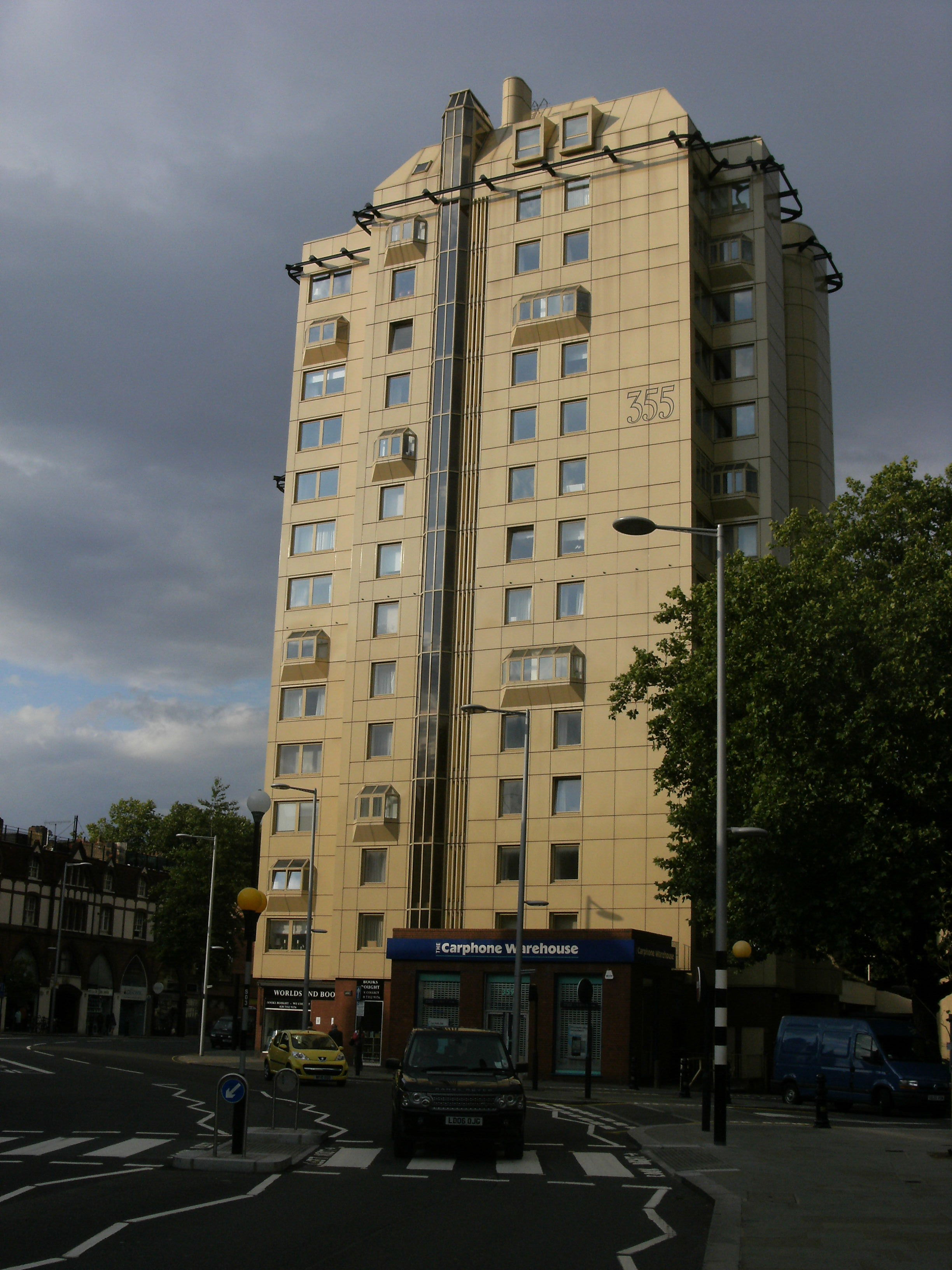 Apartment Building at 355 Kings Road, Chelsea, London SW3, 2011-06-04.